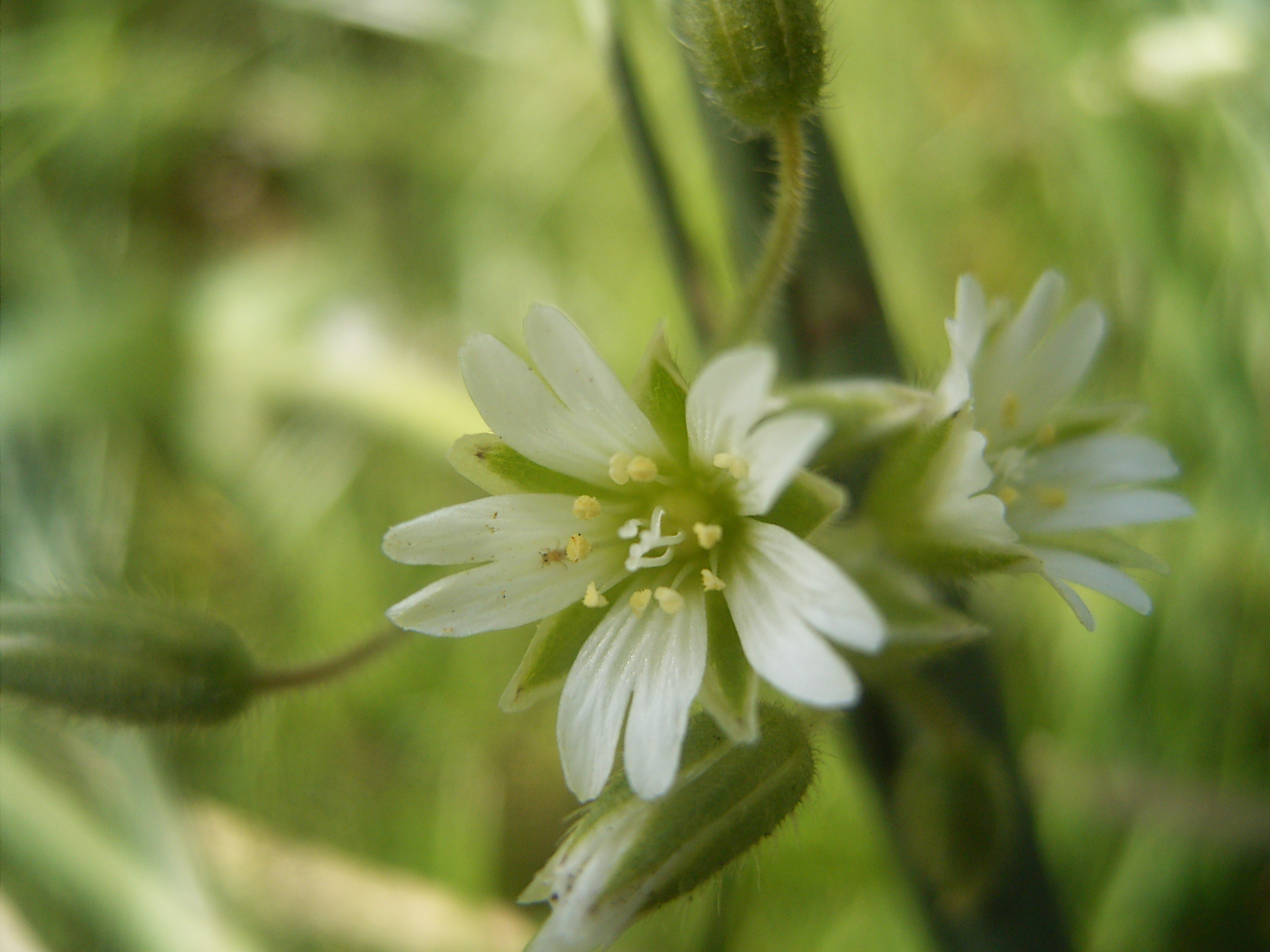 This photo shows Cerastium fontanume'